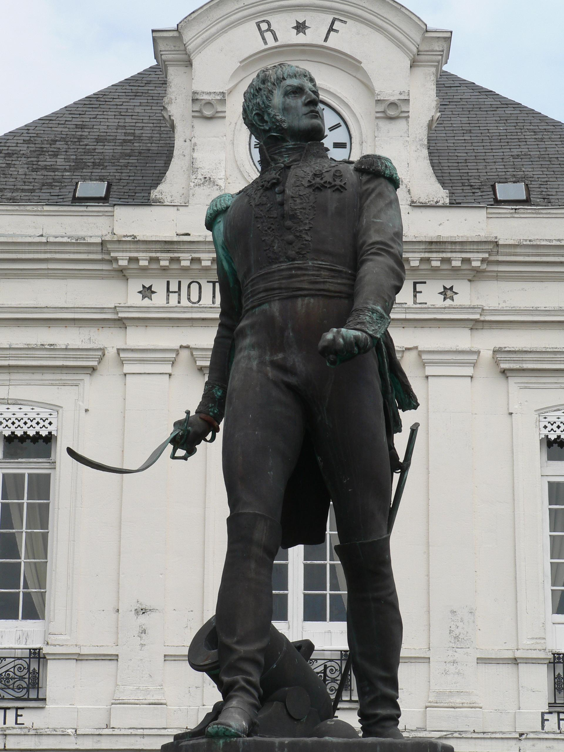 Statue of the general Barbanegre in Pontacq, France.